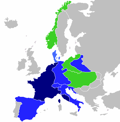 Napoleon's Empire at its greatest extent.Dark Blue-French EmpireMedium Blue-Conquered "Rebellious" StatesGreen-Allied States